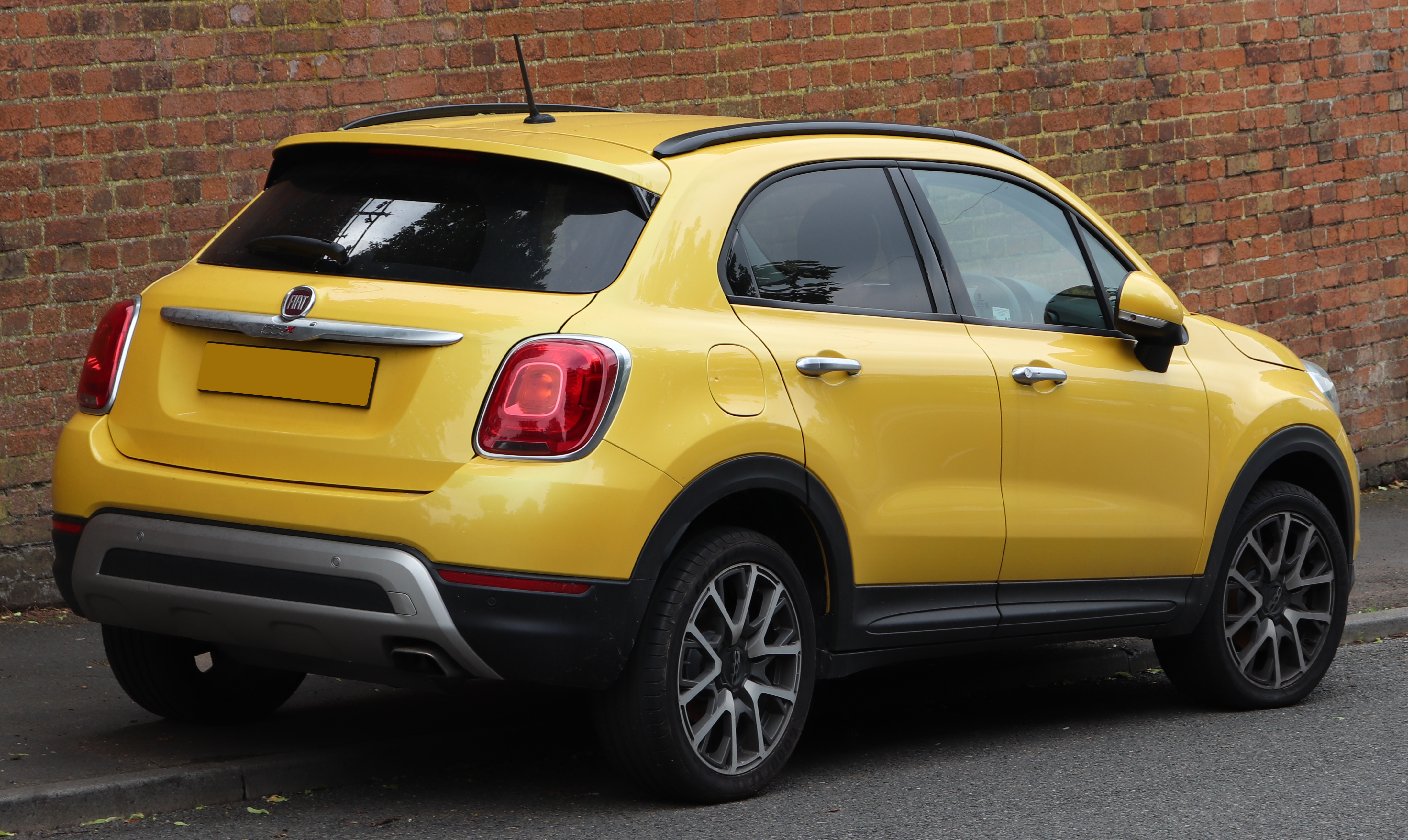 2017 Fiat 500X Cross+ Multiair 1.4 Rear Taken in Warwick